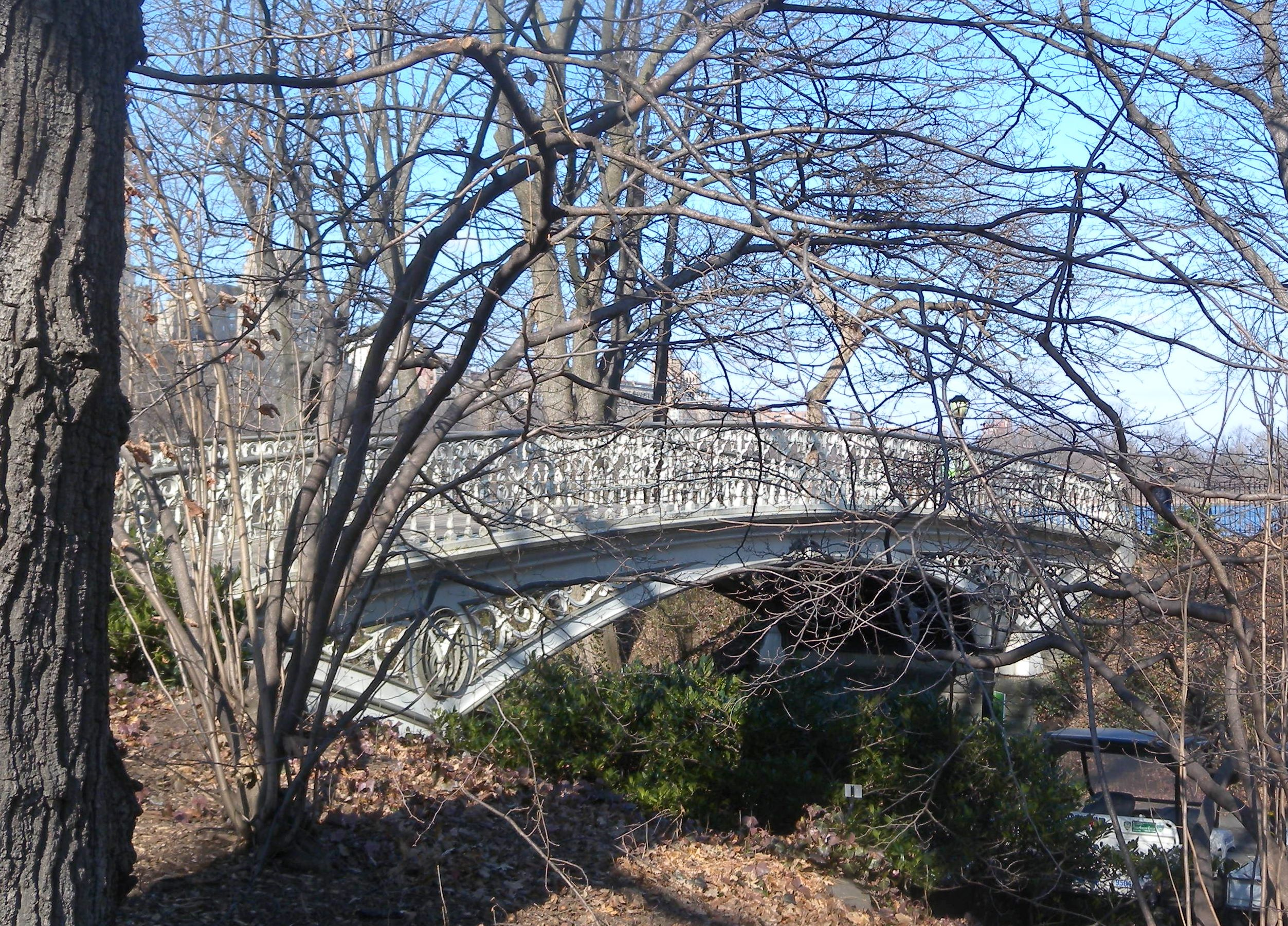 Looking north at Bridge 27, southwest of Reservoir, on a sunny day.